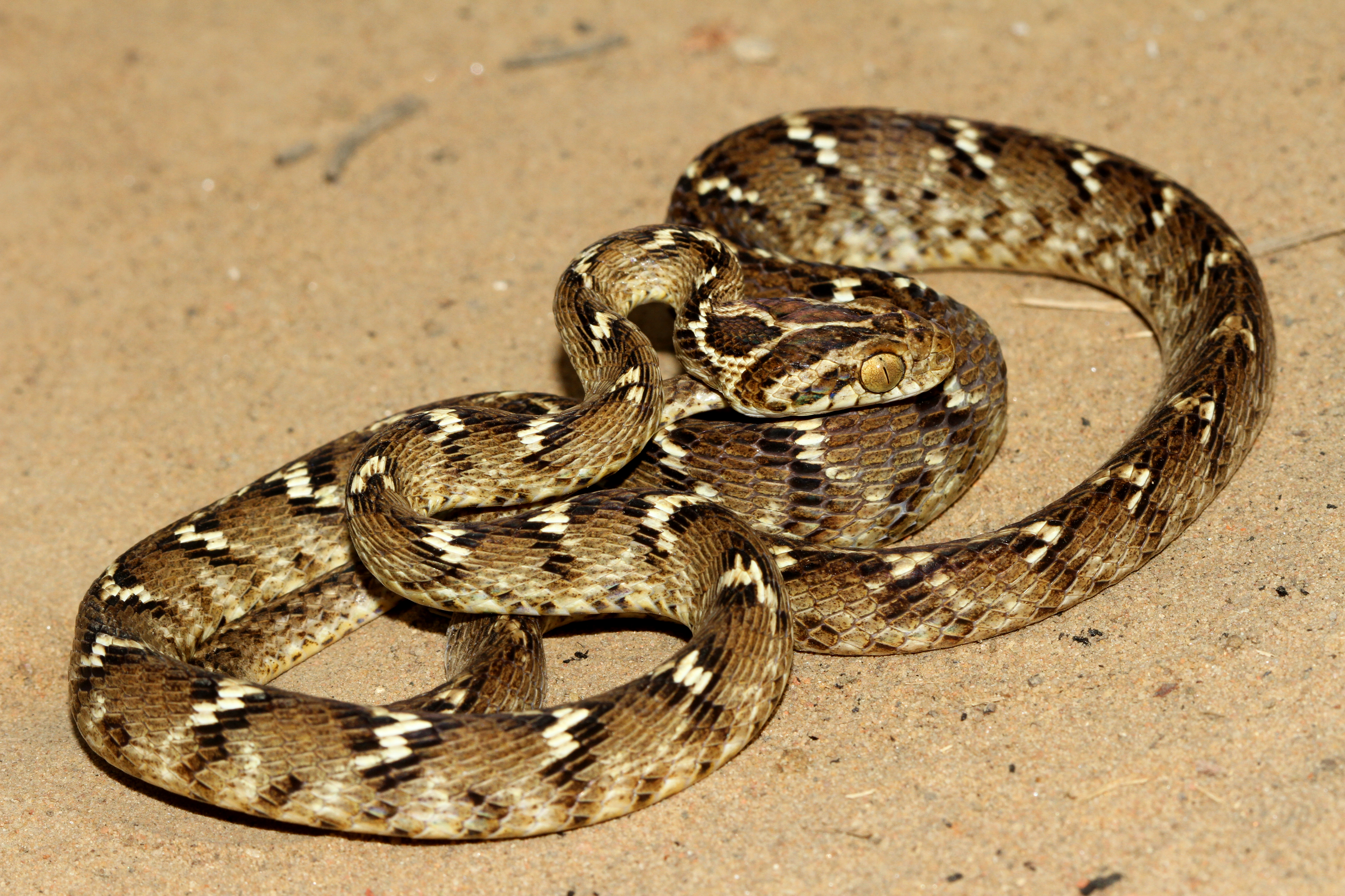 Reptiles from India